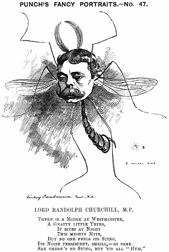 1881 Punch magazine cartoon of Lord Randolph Churchill, M.P., as a "midge with no sting in Parliament."